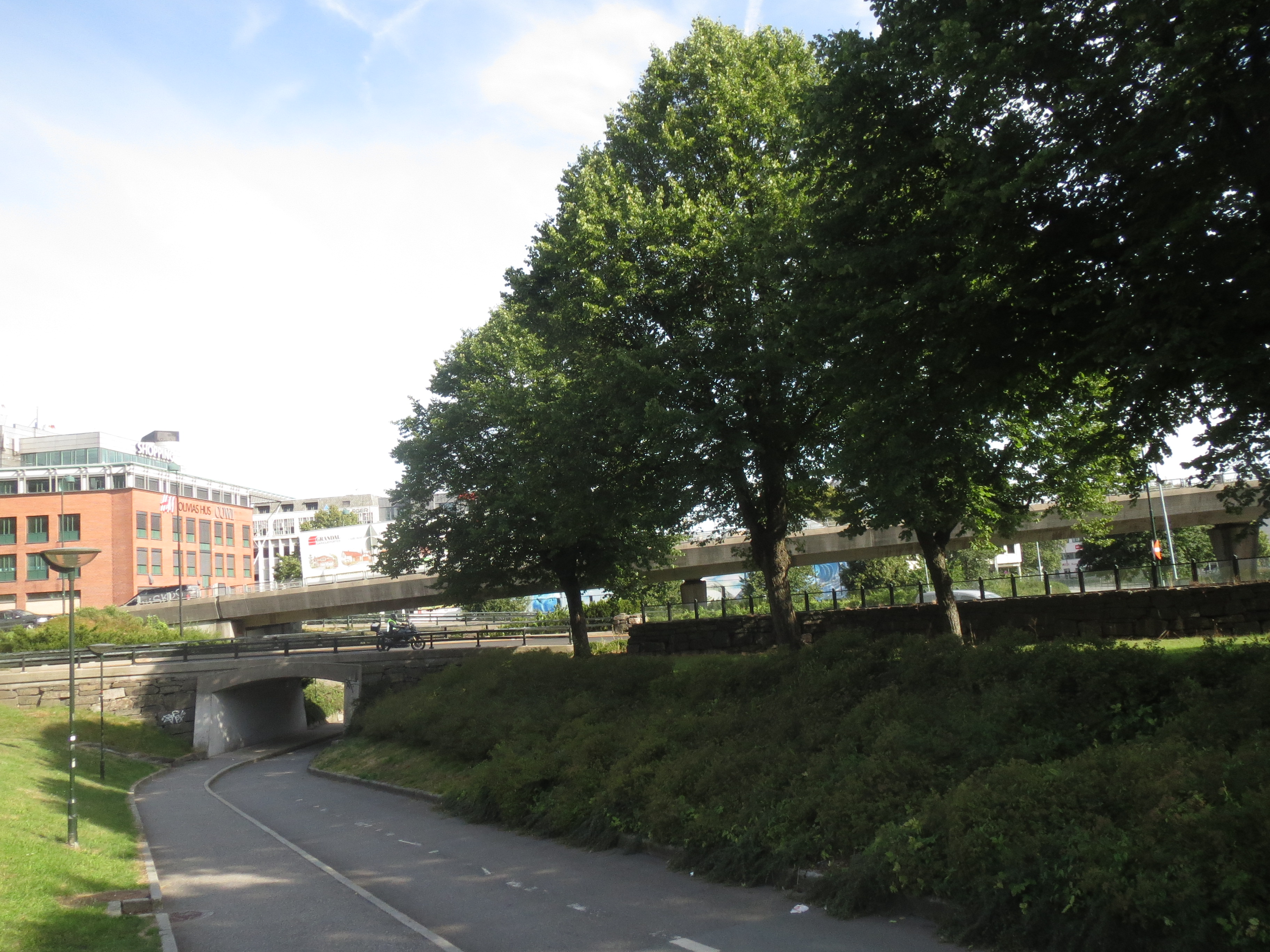 Gartnerløkka in Kristiansand, Norway